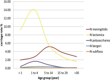 The file represents carriage rates of different Neisseria species in different age groups